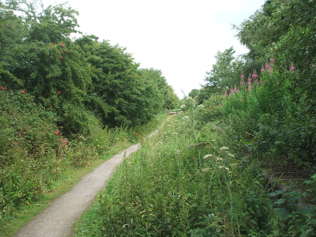 Ellerby (previously Burton Constable) railway station (site), New Ellerby, East Riding of Yorkshire, England.Opened as Burton Constable in 1864 by the Hull & Hornsea Railway, which soon to become part of the North Eastern Railway empire, this station closed in 1964. View north towards Whitedale and Hornsea. The roadside station building was still located behind the trees to the left when this image was taken, but the railway cutting underneath the former road bridge has long since been filled in. A separate station called Ellerby was located further south but this closed to passengers in 1902. See TA1638 : Ellerby railway station (site), Yorkshire. In 1922, Burton Constable station was renamed Ellerby.